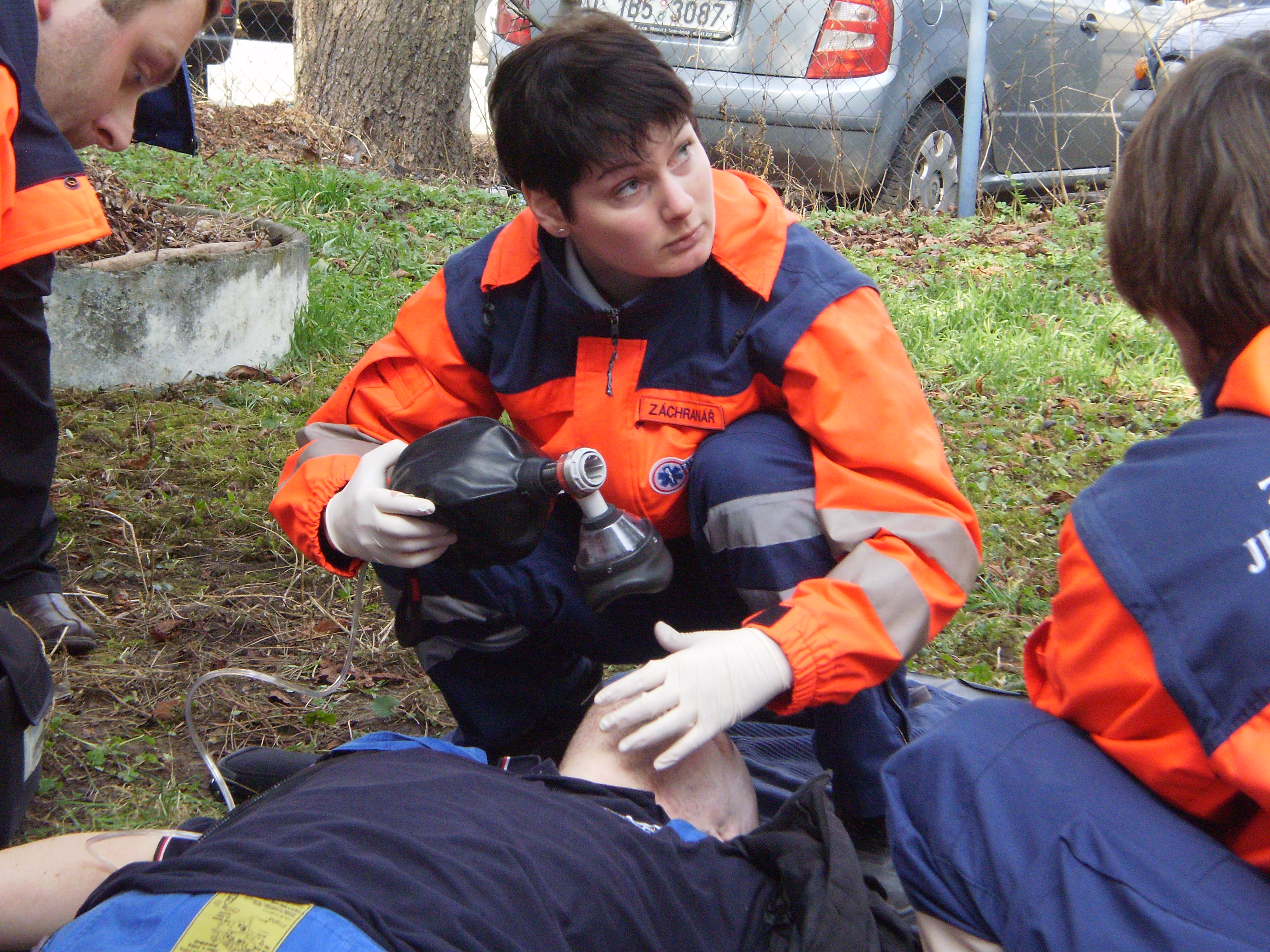 Rescuers of the Emergency Medical Service of South Moravian Region during the competition Malá jihomoravská Rallye Rejvíz 2011 in Brno, South Moravian Region, Czech Republic